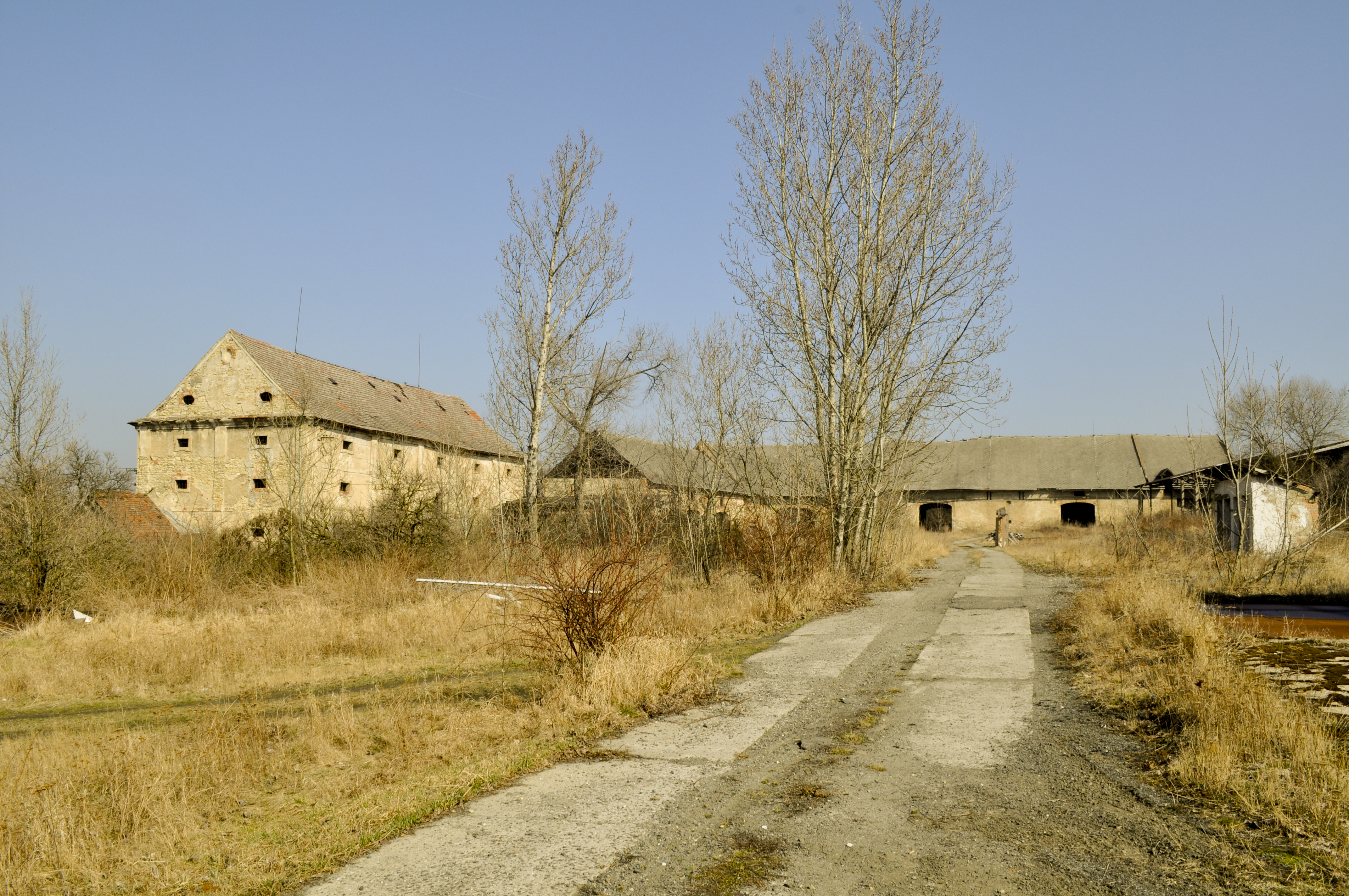 Ruins of the Chateau, Chcebuz, Ústí nad Labem Region